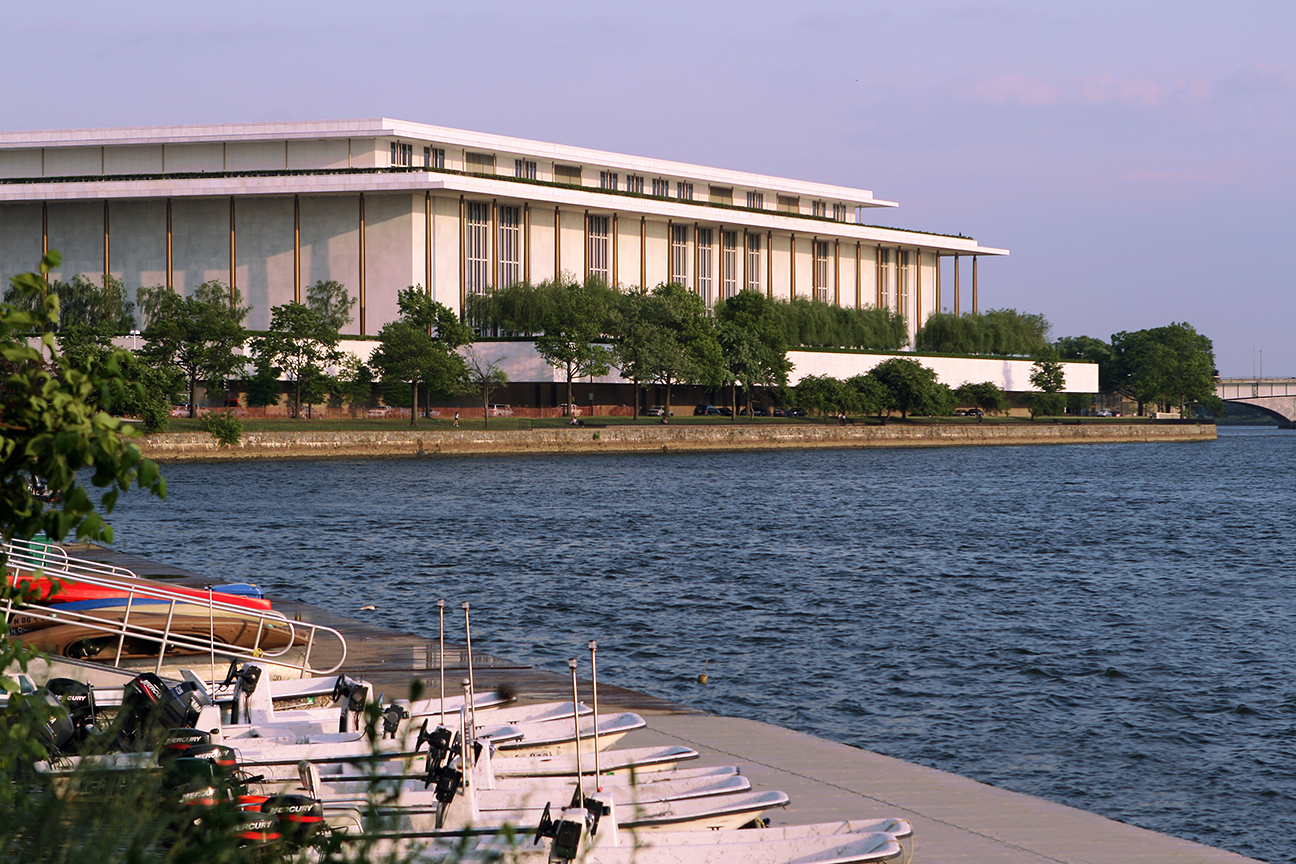 the kennedy center on the potomac waterfront in washington dc